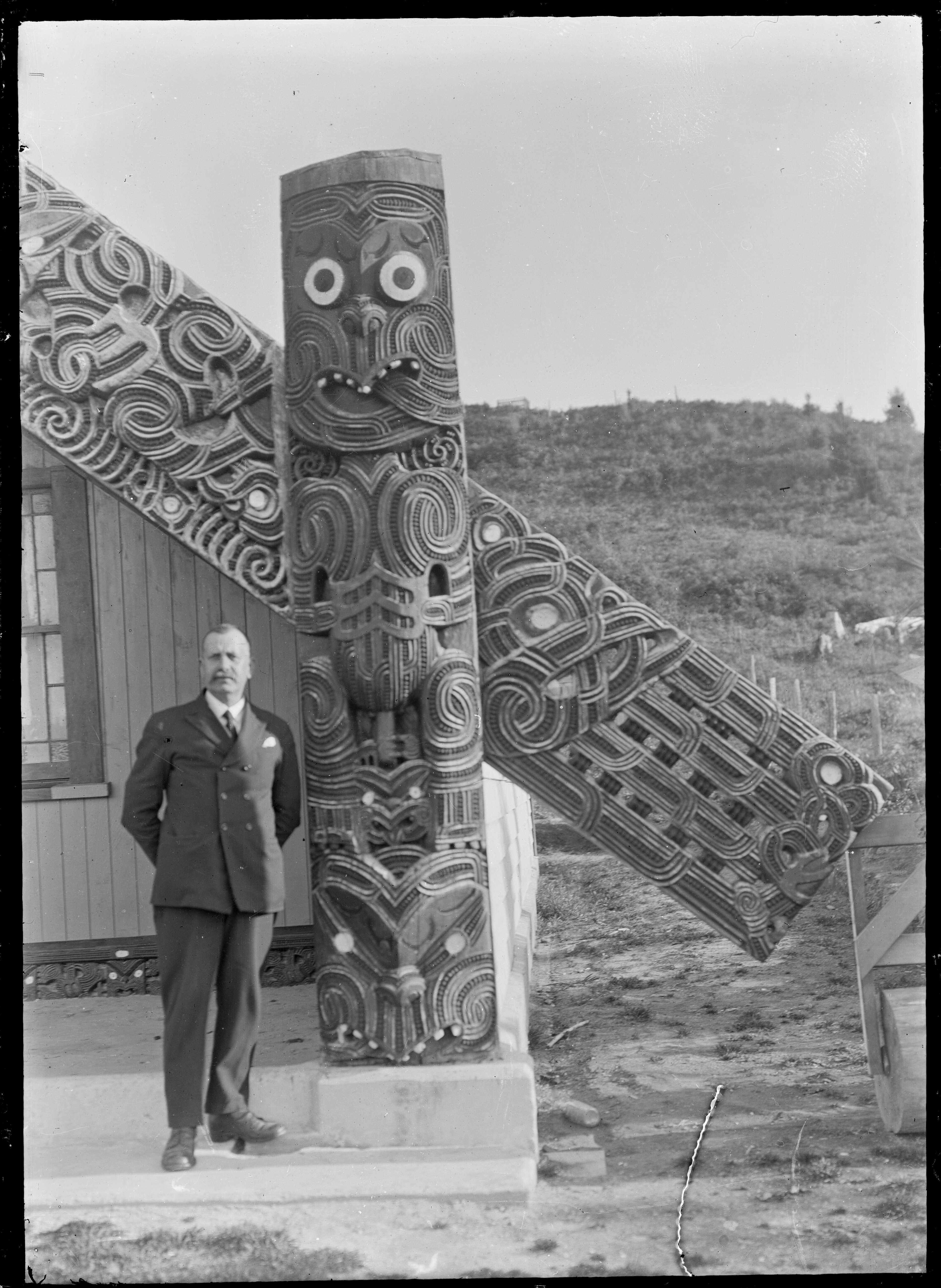 Te Tikanga a Tawhiao meeting house, Ngatira. Image shows a closeup view of the right amo with the photographer Albert Percy Godber standing beside it. Taken by Godber circa 1930.